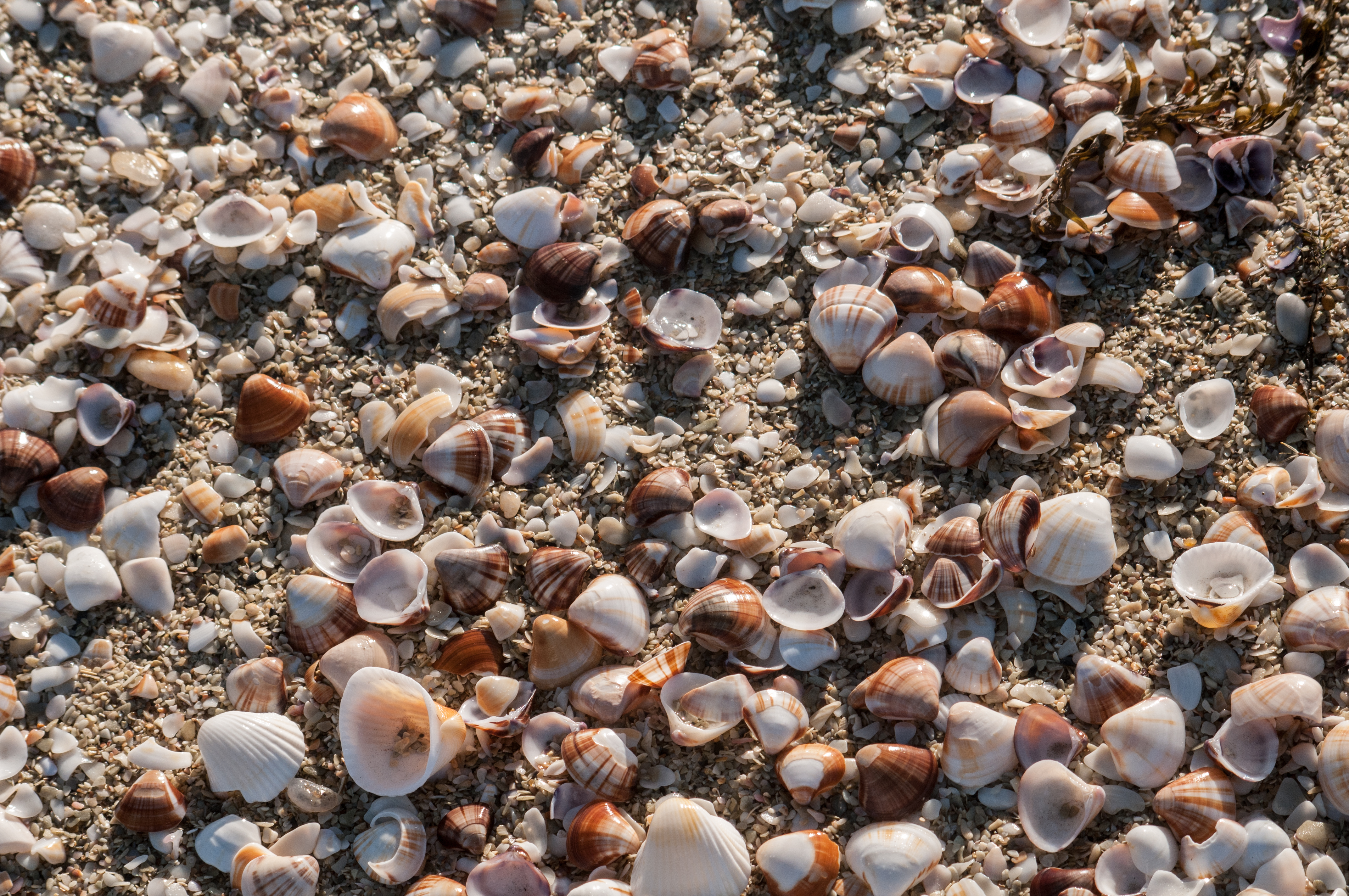 shells of Tivela mactroides and the genus Anadara from La Restinga beach in Laguna de la Restinga National Park